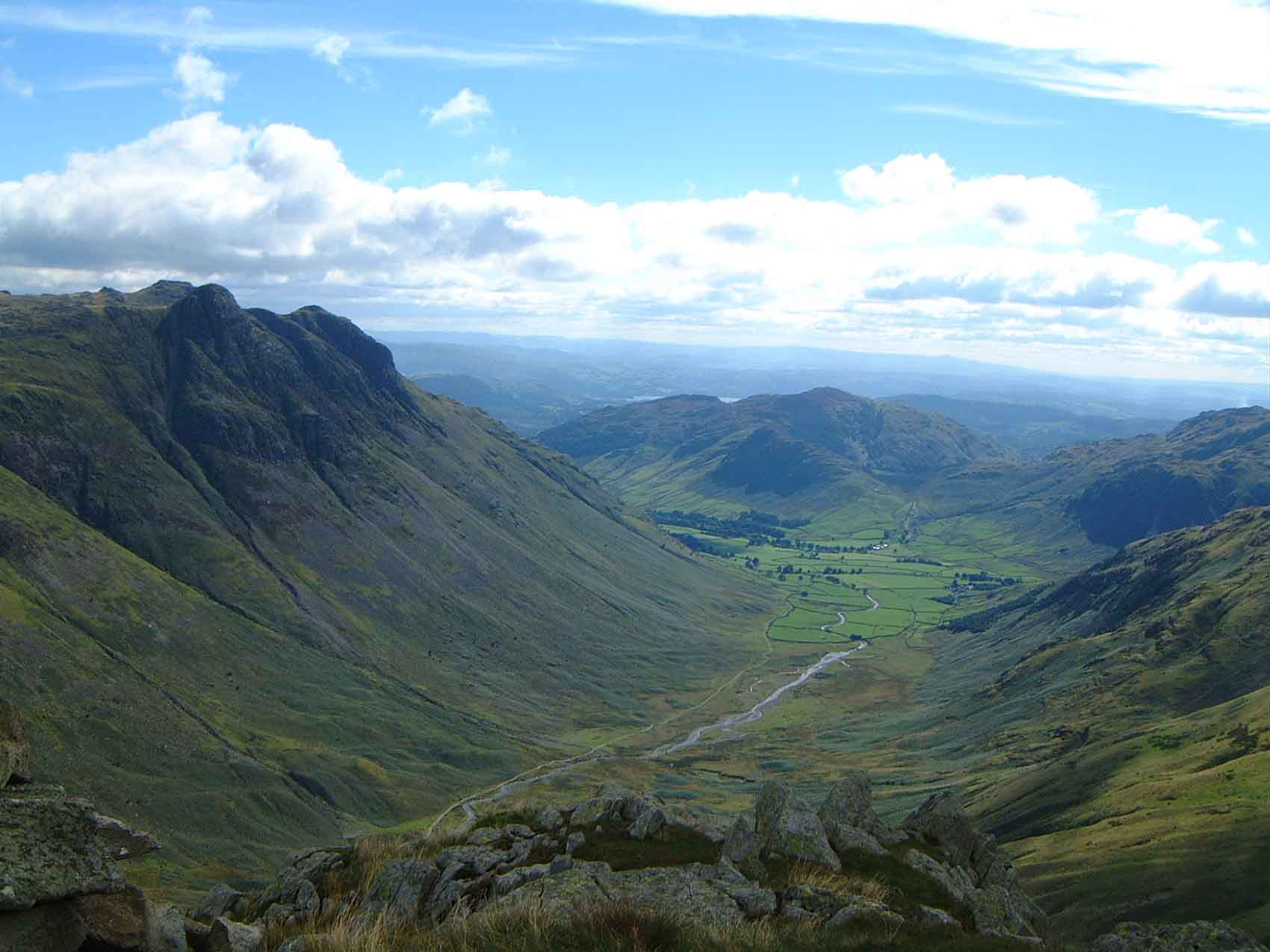 Personal photograph taken by Mick Knapton on 4th September 2001.